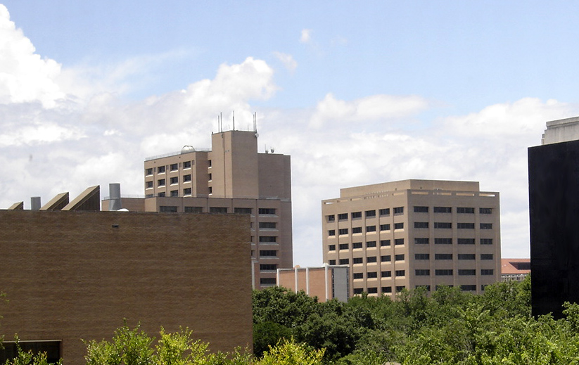 UT Austin campus. Art bldg in foreground. ENS, ECJ, and RLM bldgs in background.